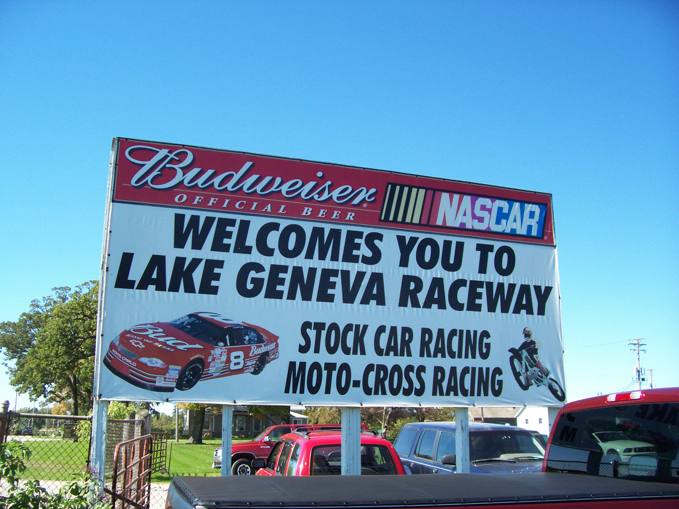 The Lake Geneva Raceway sign in Lake Geneva, Wisconsin. This image was taken October 1, 2006 by User:Royalbroil at the final official stockcar event at the track. The track was transferred to a developer on January 1, 2007.